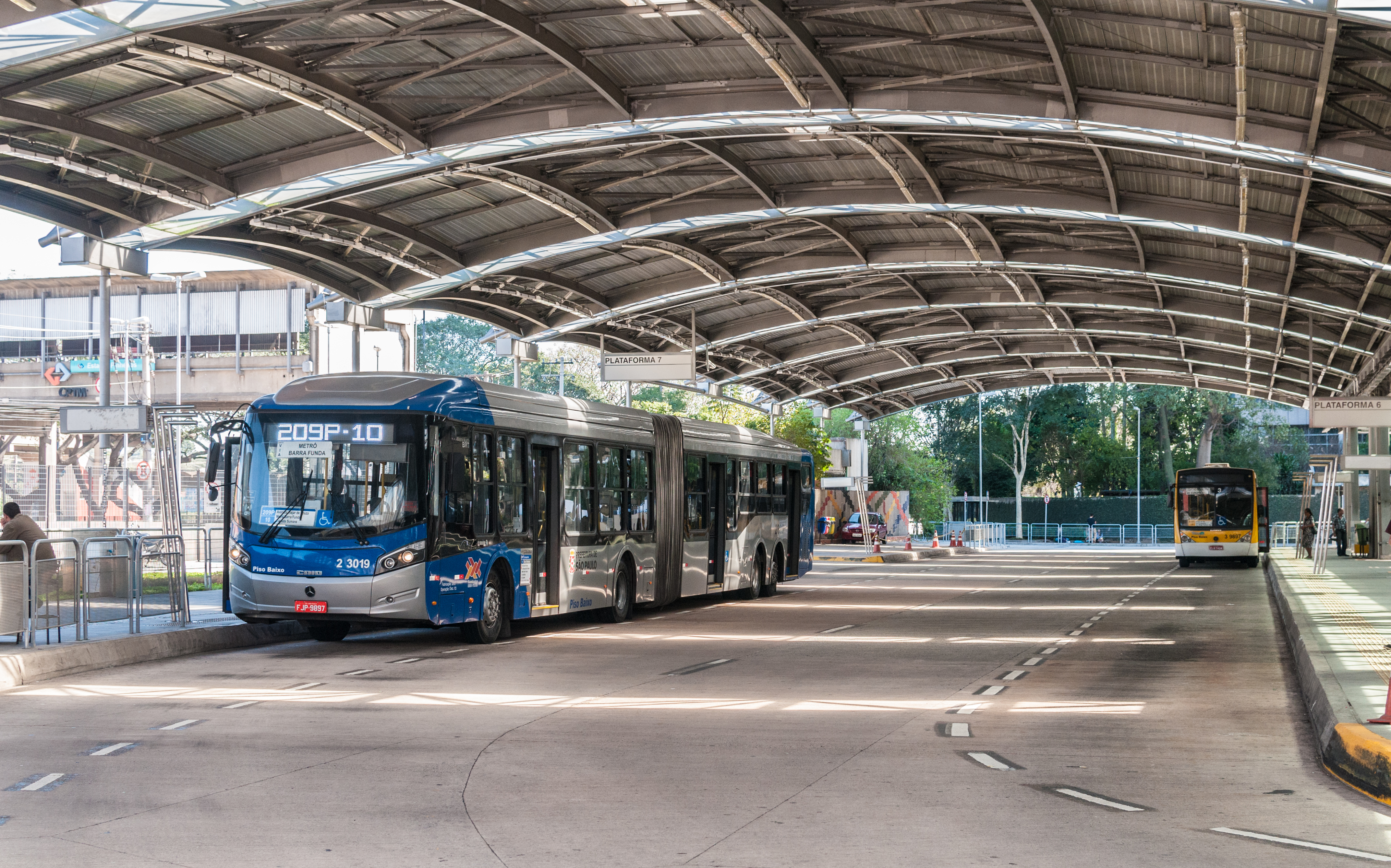 Bus stop in São Paulo